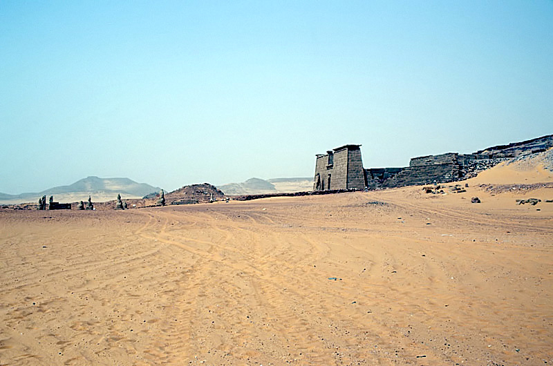 East side of the Temple of Wadi es-Sebu', Lake Nasser, Egypt